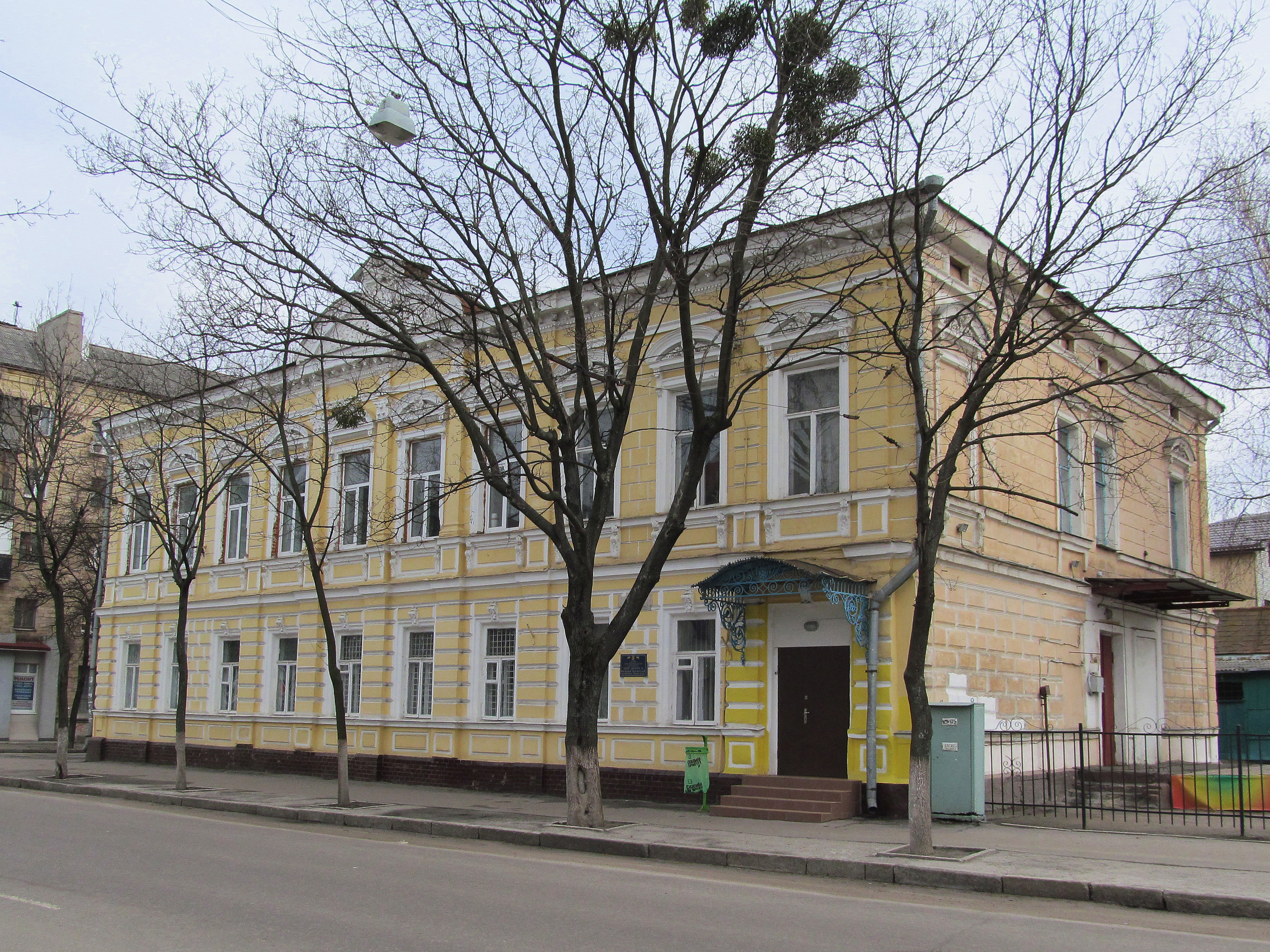 Blagovishchenska Street, 15, Kharkiv, Ukraine. Center for Children and Youth.